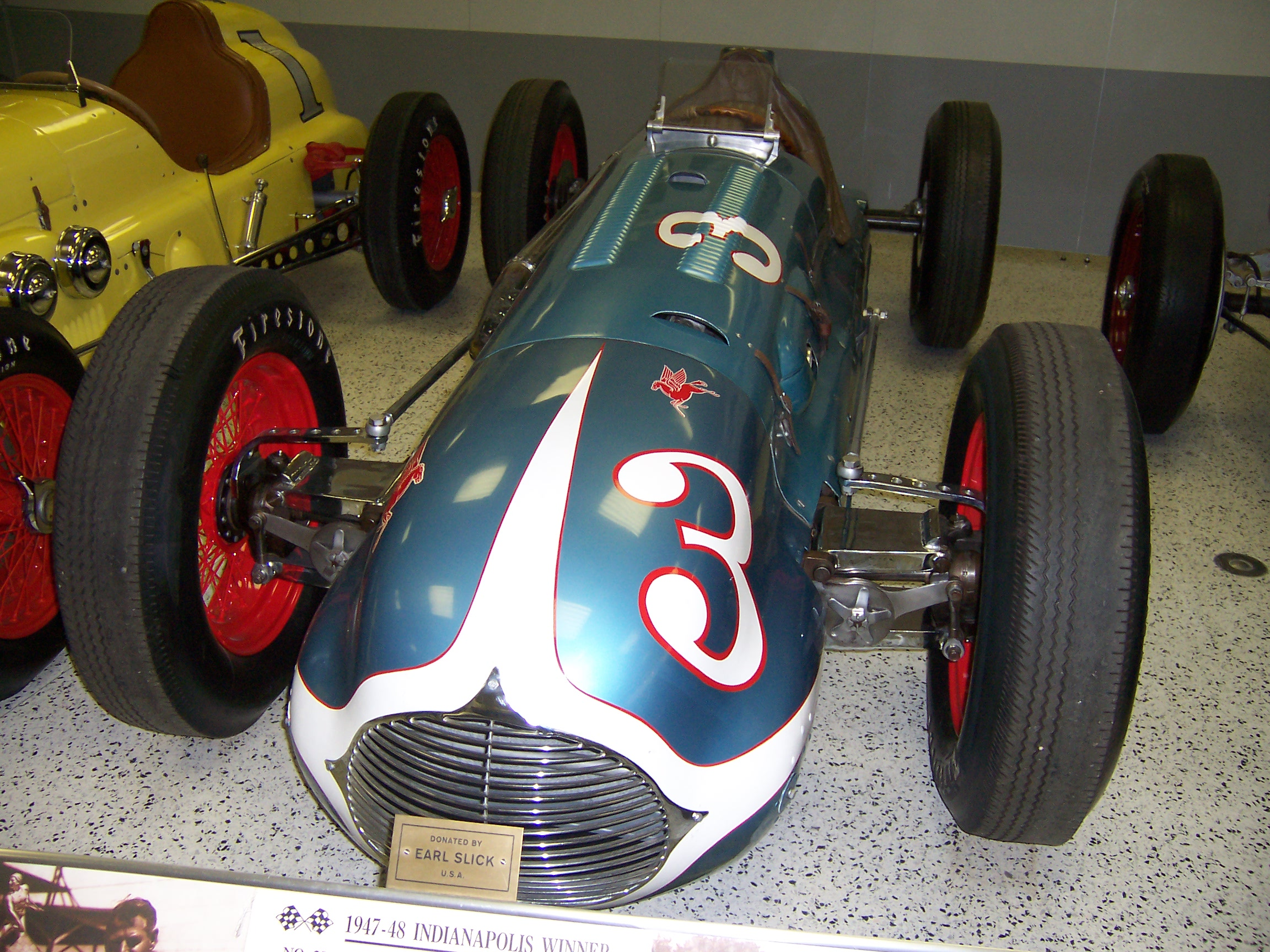 Indianapolis 500 winning car (1947 and 1948)